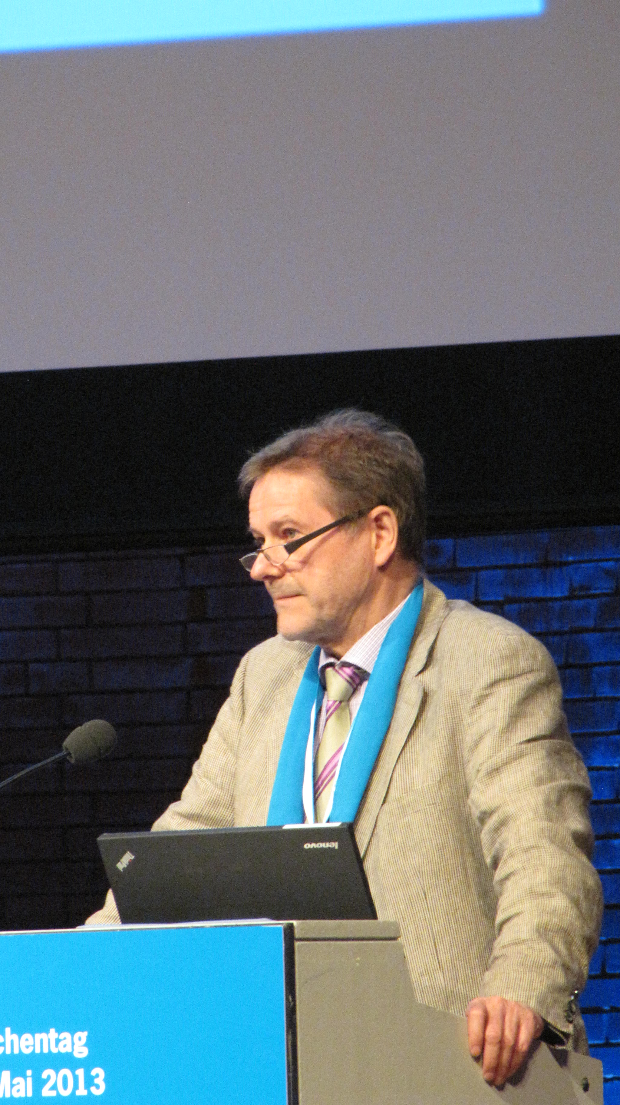 Kirchentag Hamburg 2013: Jan-Hendrik Olbertz